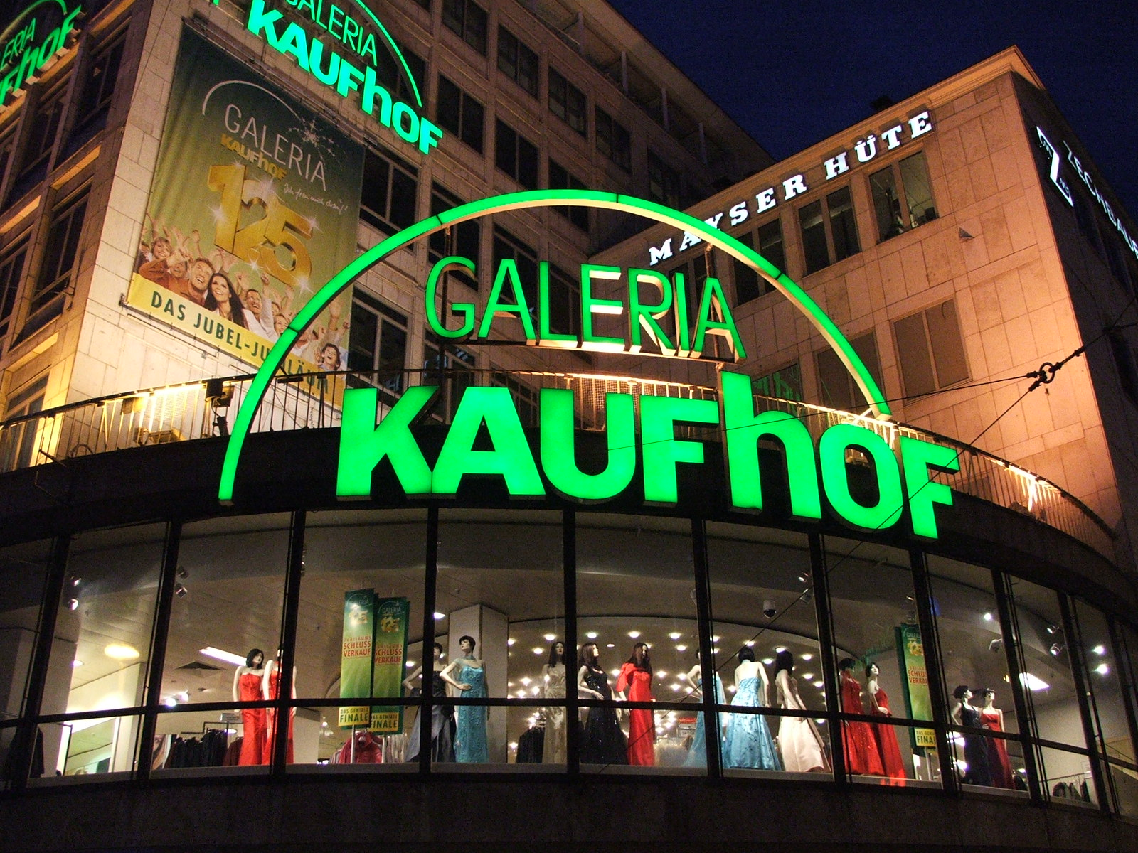 Galeria Kaufhof, Munich, Karlsplatz 21